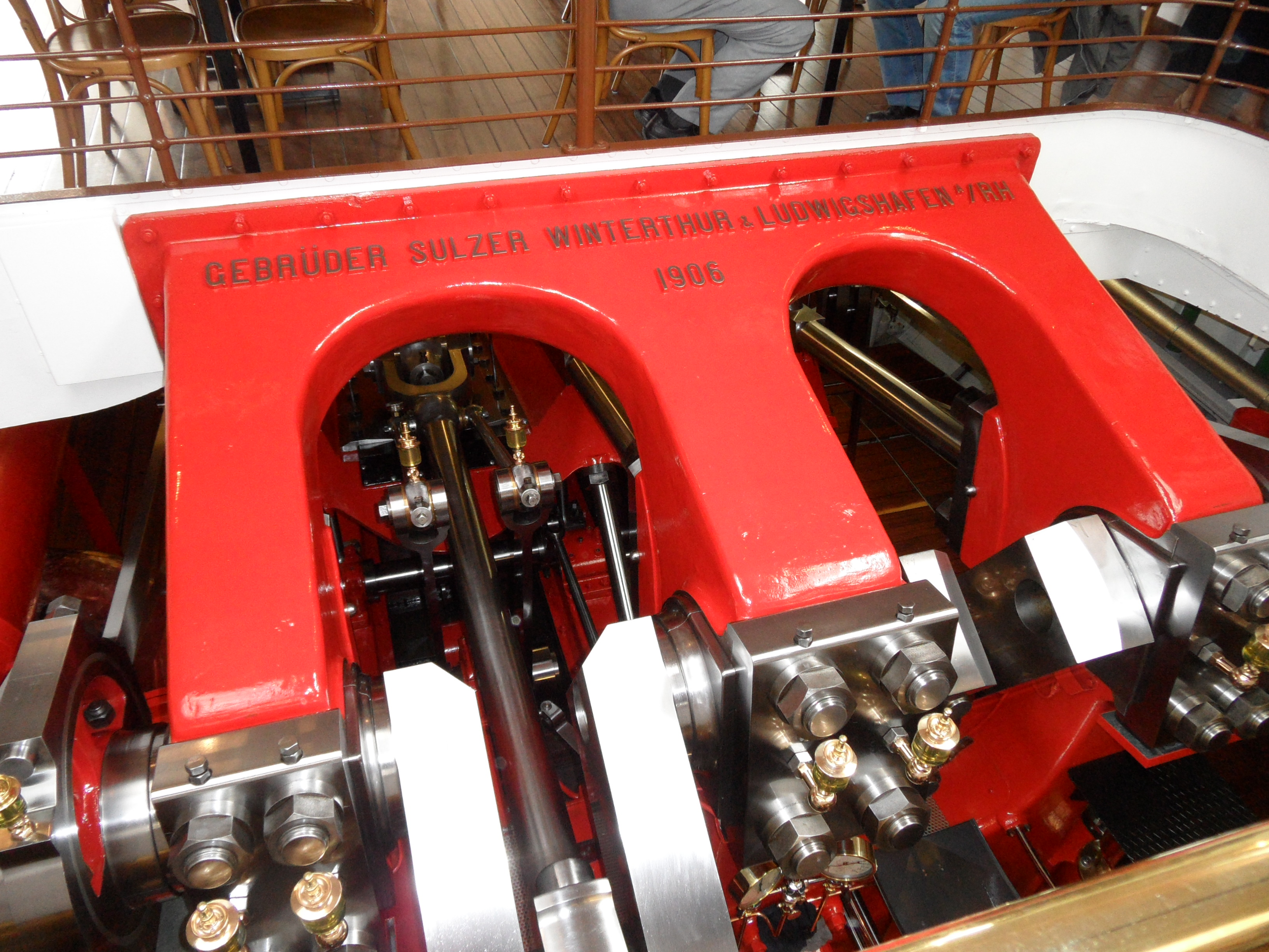 Engine of the paddle steamer "Schiller" on Lake Lucerne (Vierwaldstättersee), Switzerland. Built in 1906 by Sulzer.